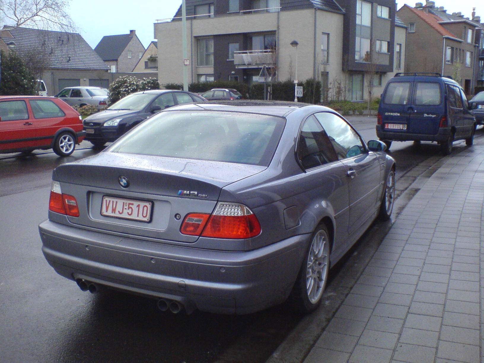 Picture taken in Belgium